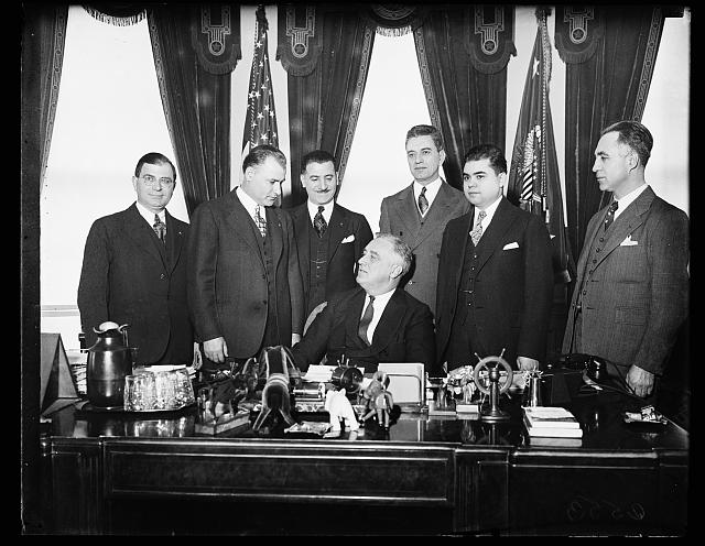 PRESIDENT ROOSEVELT AND OFFICERS OF THE ORDER OF AHEPA GREEK AMERICAN SOCIETY